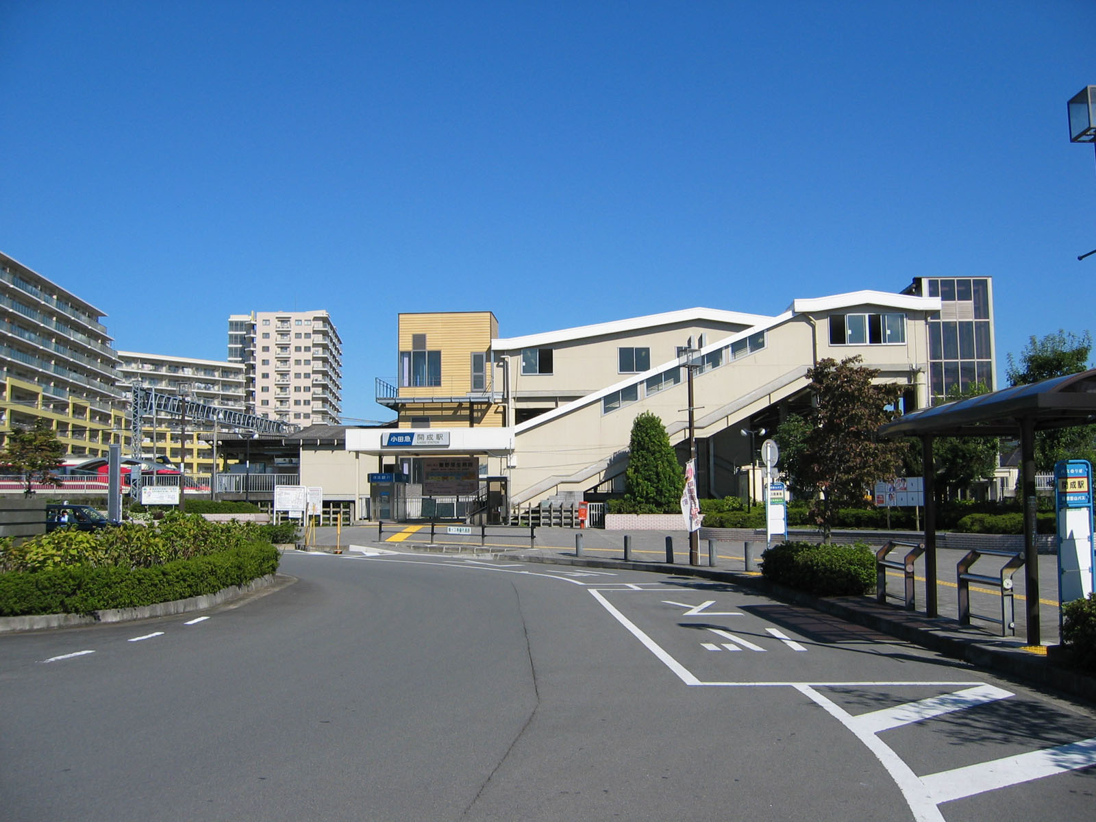 West Exit to Kaisei Station, on the Odakyu Odawara Line, Kaisei, Kanagawa 開成駅